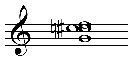 Dream chord on G, tuned 12:16:17:18. Created by Hyacinth (talk) 03:44, 29 November 2010 using Sibelius.